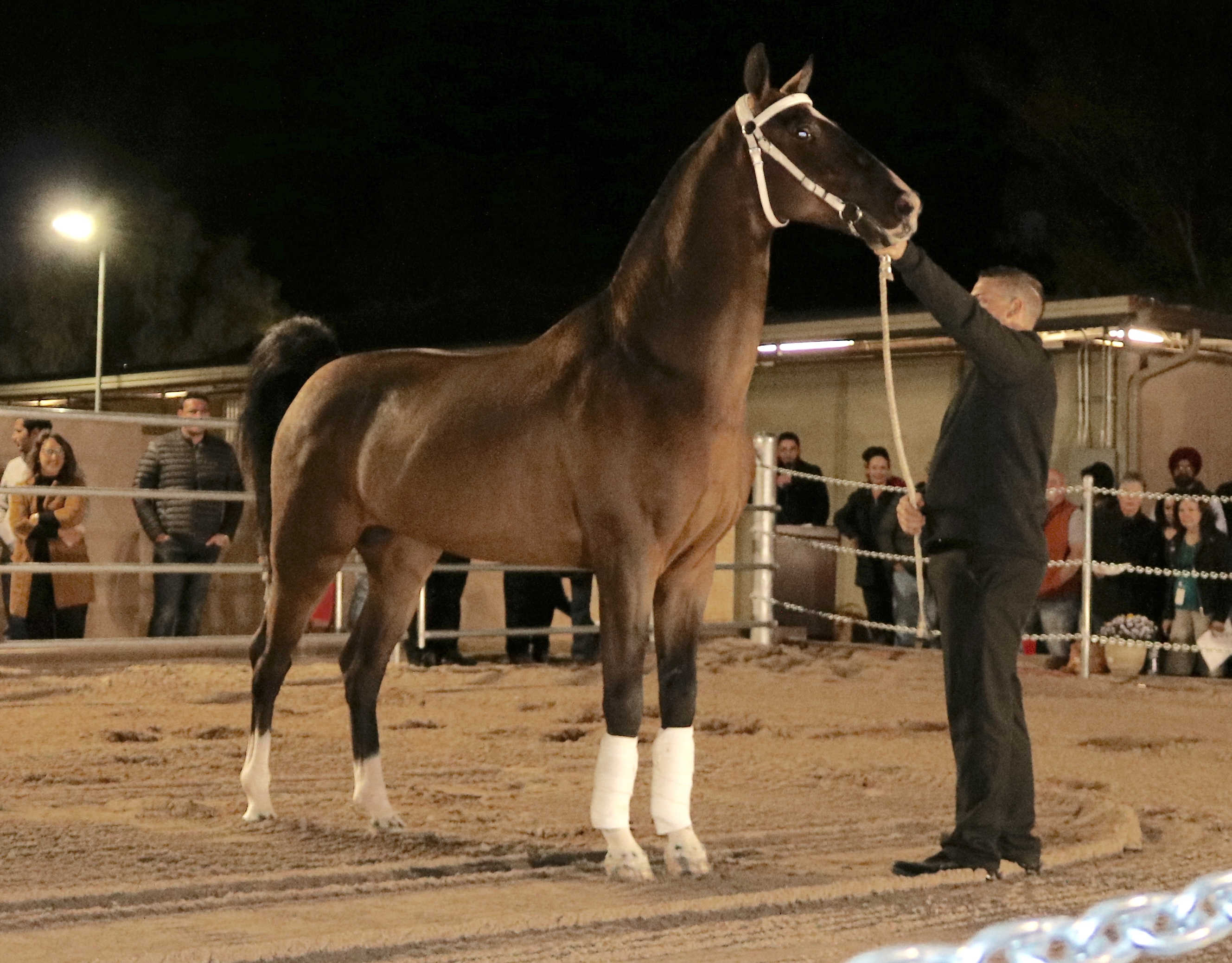 Dutch Harness Horse stallion imported to the United States and exhibited at a barn tour in Scottsdale, Arizona